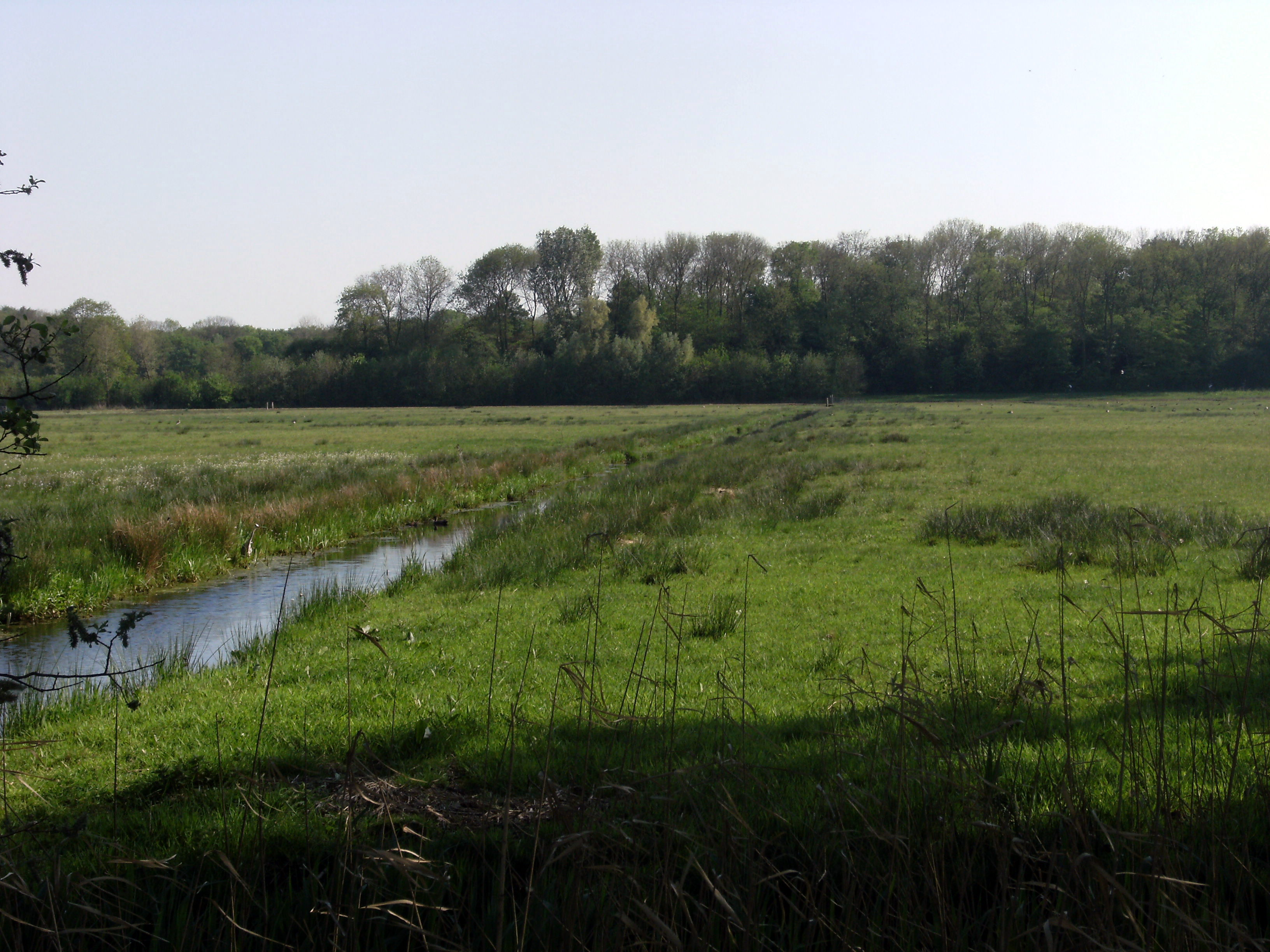 2011-04- 25 in Amsterdam; Meadows at Amsterdams bos.